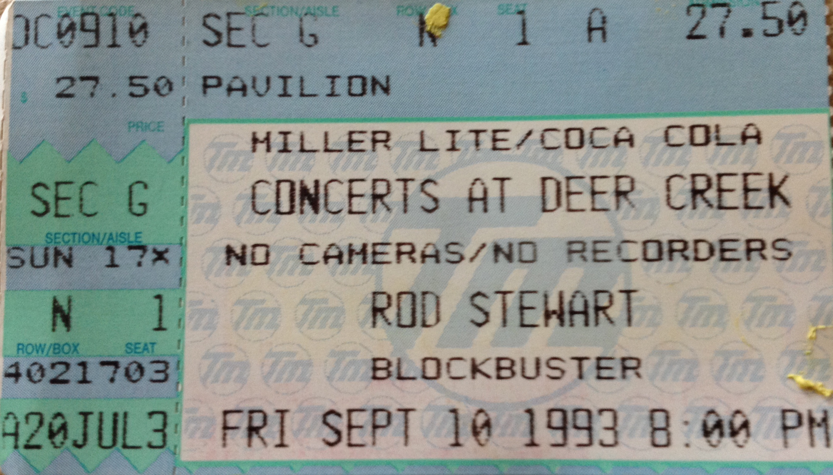 Rod Stewart concert ticket September 10, 1993 Deer Creek, Noblesville, Indiana